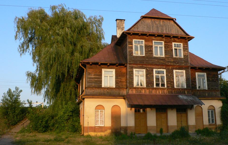 The historic railway station building in the Zajezierzu 1917. Besides seeks weeping willow, also historical.